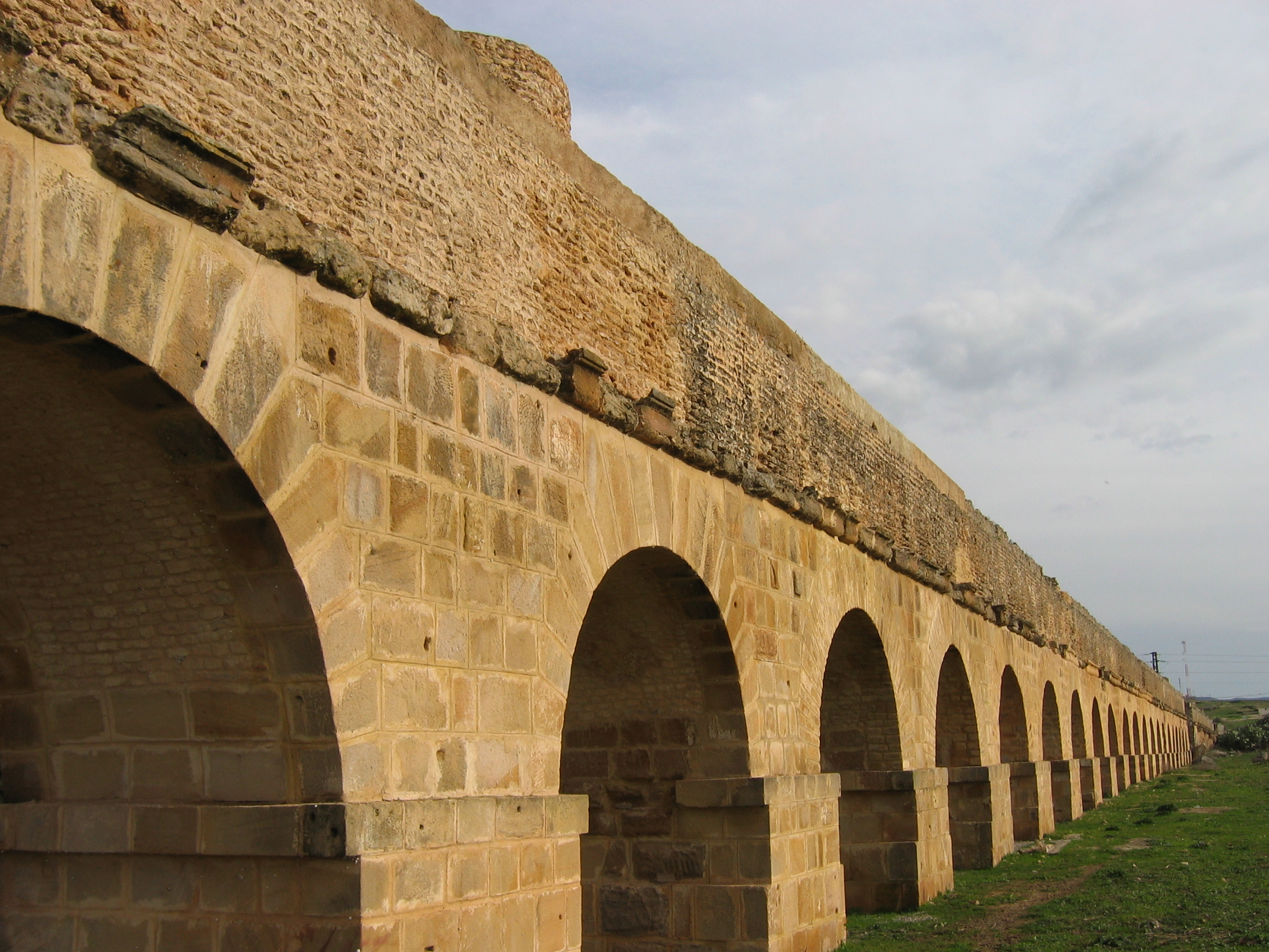 Roman aqueduct near Tunis. Zaghouan